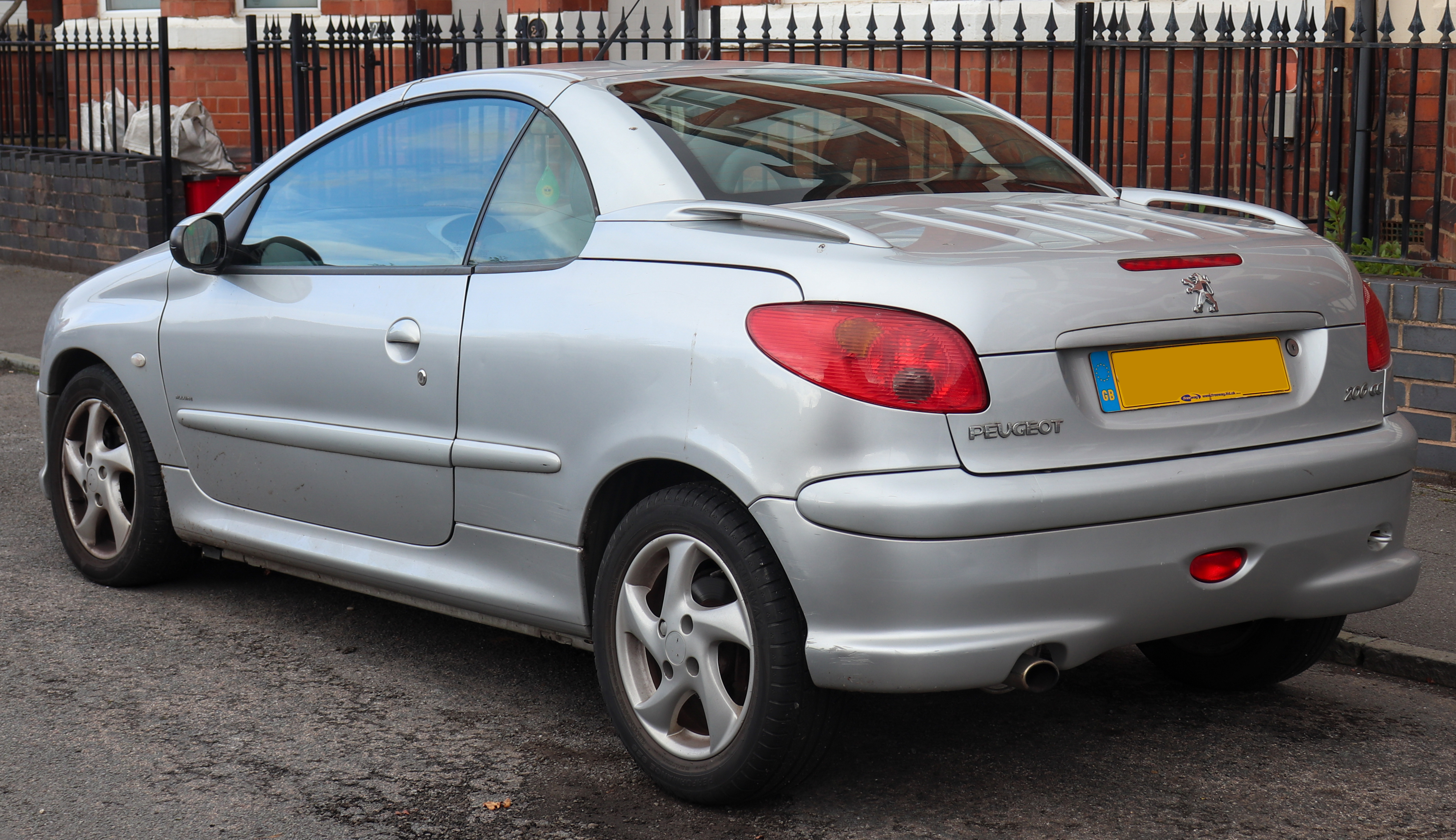 2004 Peugeot 206 CC Allure Automatic 1.6 Rear Taken in Leamington Spa